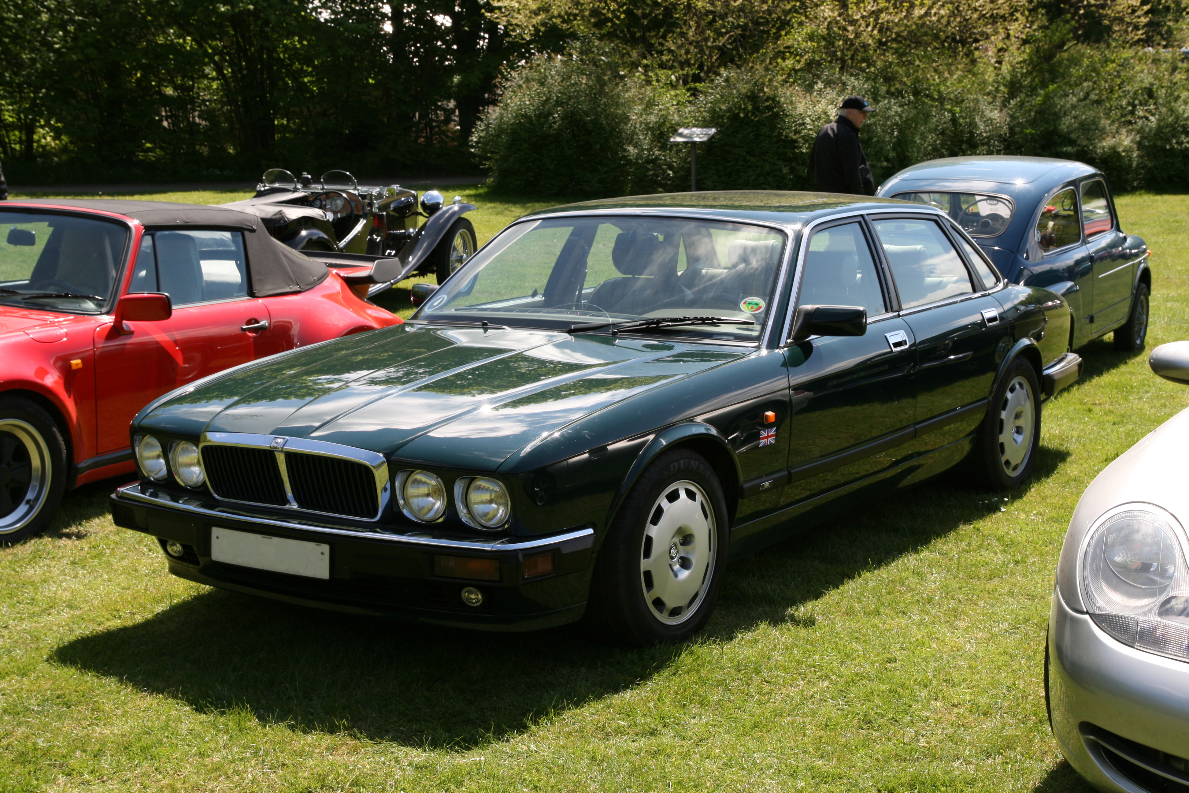 Front left view of a 1993 Jaguar XJR parked at the Sofiero Classic car show at Sofiero castle in Helsingborg, Sweden.